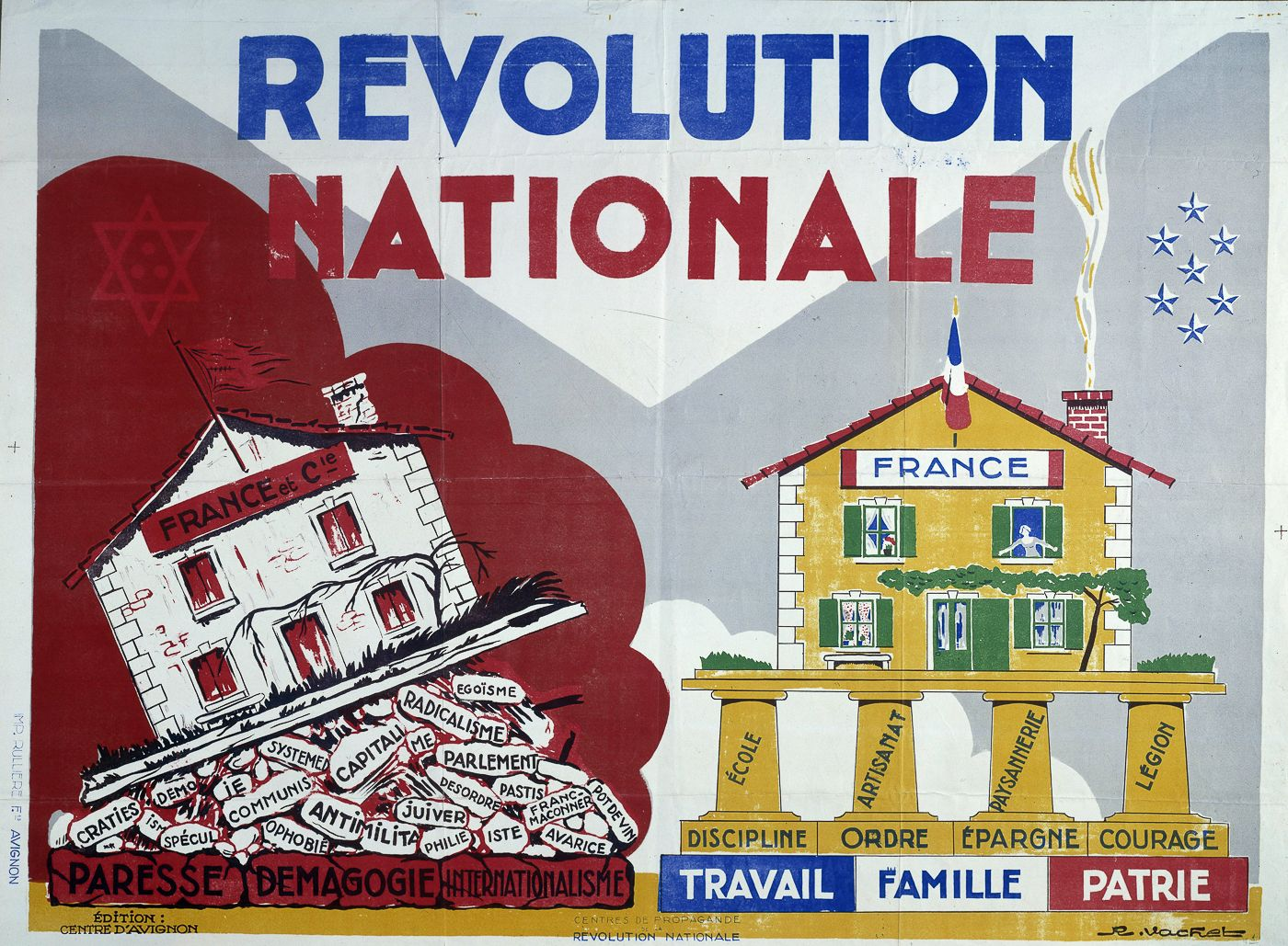 a propaganda poster for the Vichy Regime's 'Revolution Nationale' program.